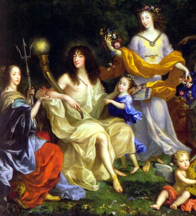 Queen Henriette Marie with her daughter, granddaughter and son in law from the Family of Louis XIV by Nocret